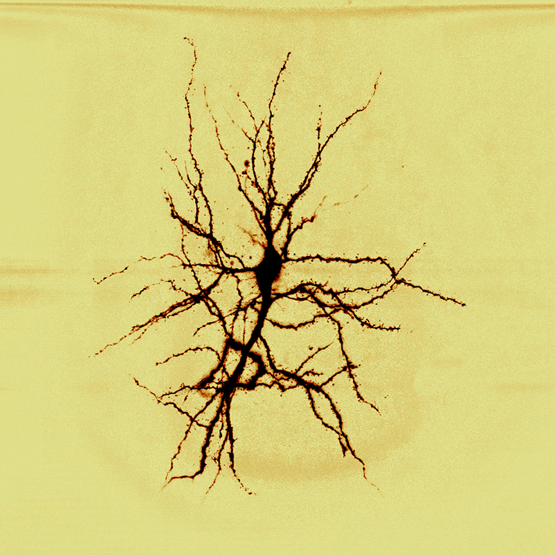 A spiny stellate neuron of the medial entorhinal cortex labeled with Alexa 488